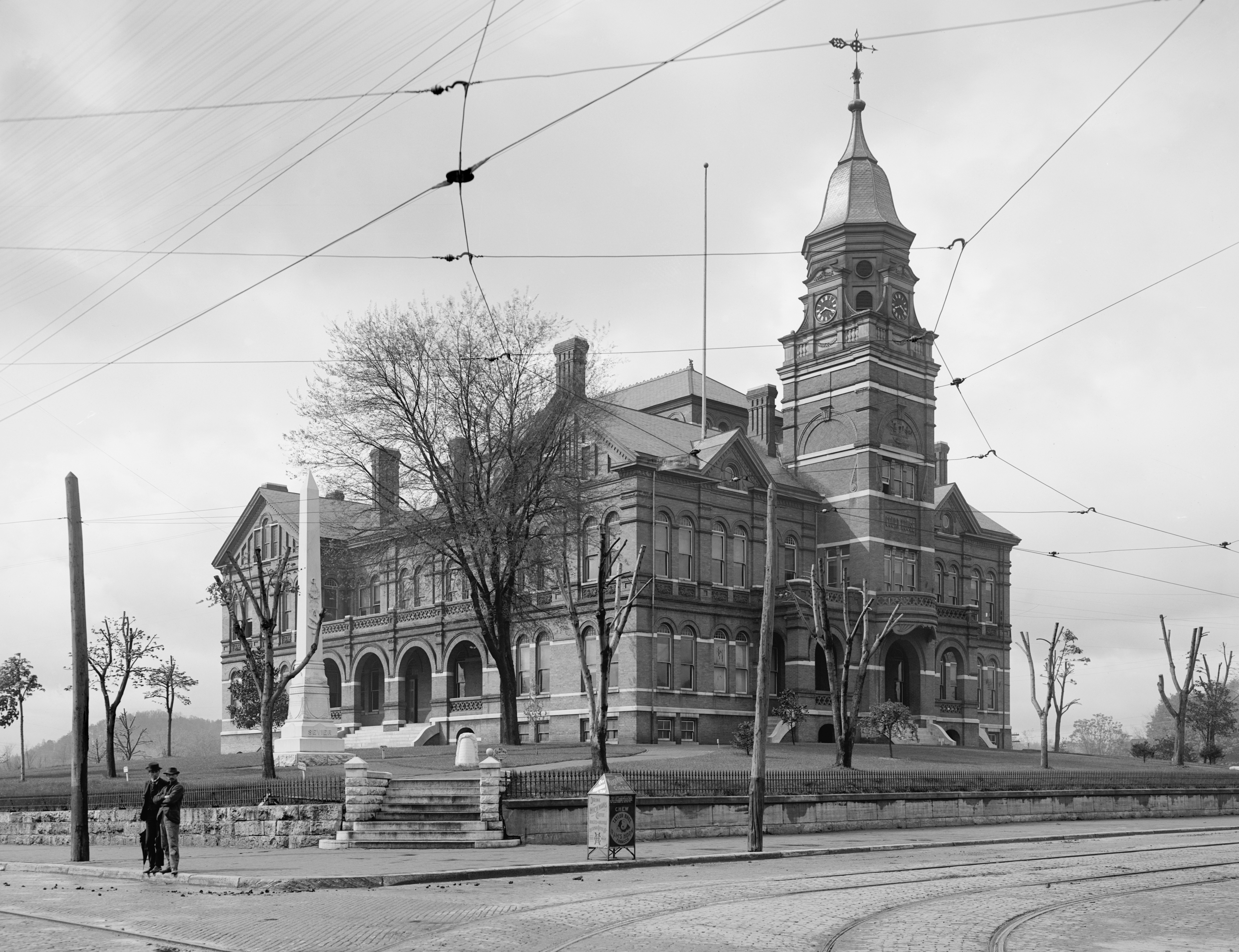 The Knox County Courthouse in Knoxville, Tennessee, USA, photographed from the corner of Main Street and Gay Street, circa 1903.